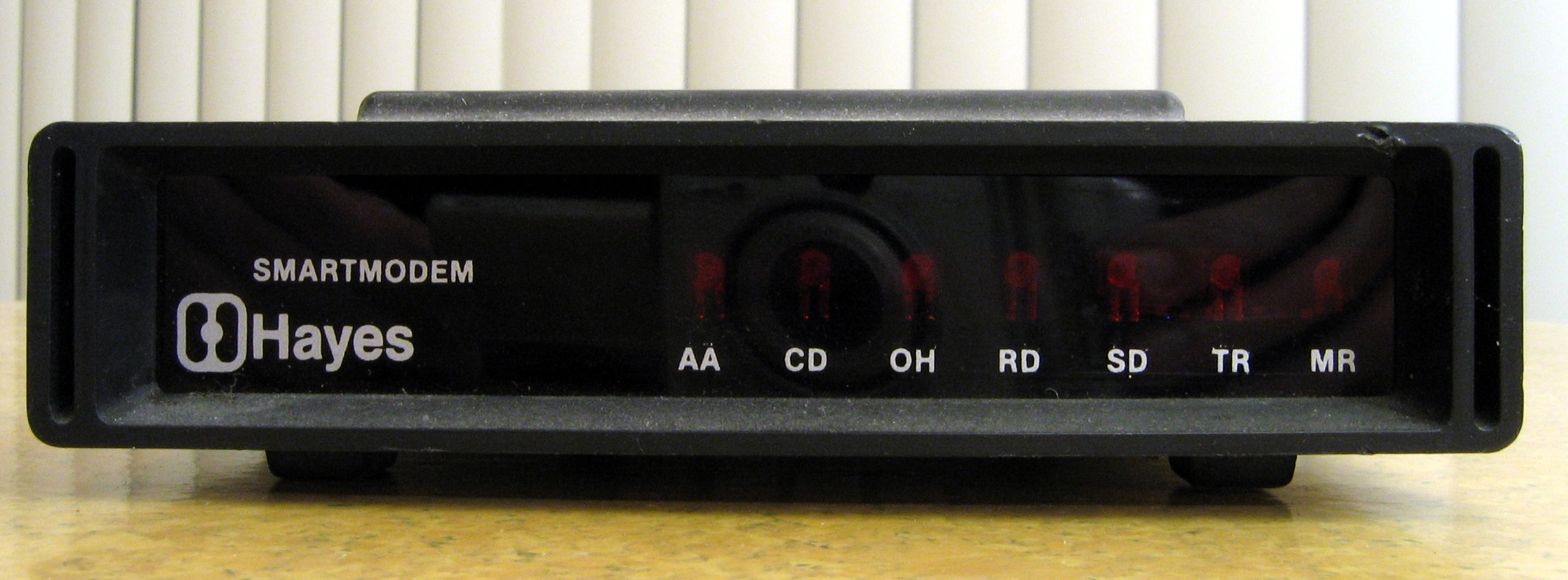 I spent many an hour watching these lights blink.